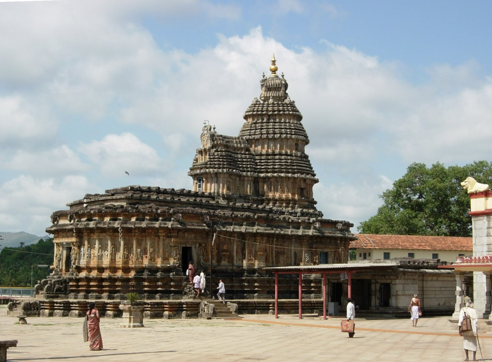 Vidyasankara temple, Sringeri.